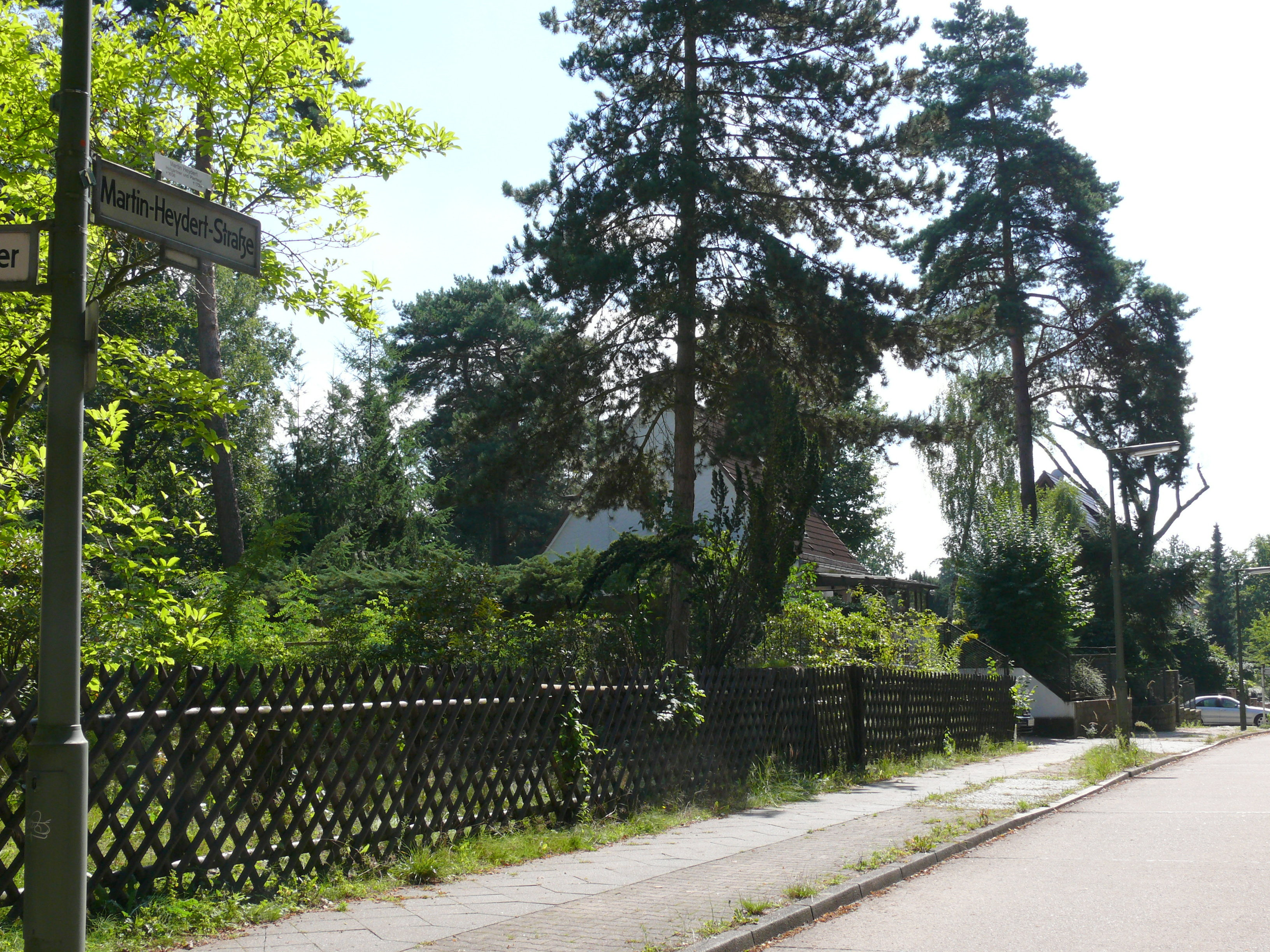 Berlin-Wannsee Martin-Heydert-Straße